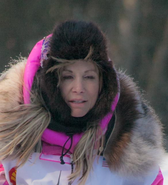 The Iditarod is something that makes me so proud to be an Alaskan - I never get tired of watching the dogs or wondering about life on the trail during the race - I wish I could have tried it. I took these photos at the Ceremonial Start - it is held the day before the race actually starts and is more of a party atmosphere to celebrate and honor the mushers and dogs. The race starts in downtown Anchorage and winds through the woods for a bit before the mushes pick up and head to Willow for the real start. I love to shoot out in the woods, away from the crowds. The mushers look so relaxed, the dogs look happy, and life is good. I took these photos on 2 March 2013 near Goose Lake, Anchorage, Alaska.